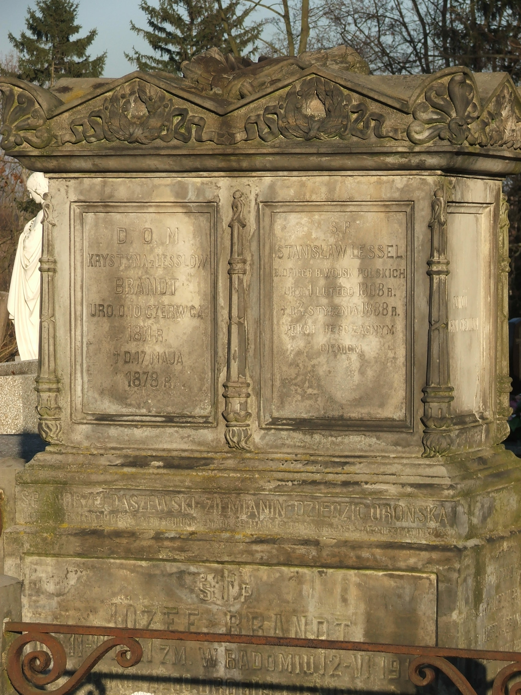 Roman Catholic cemetery in Radom - tomb of Józef Brandt